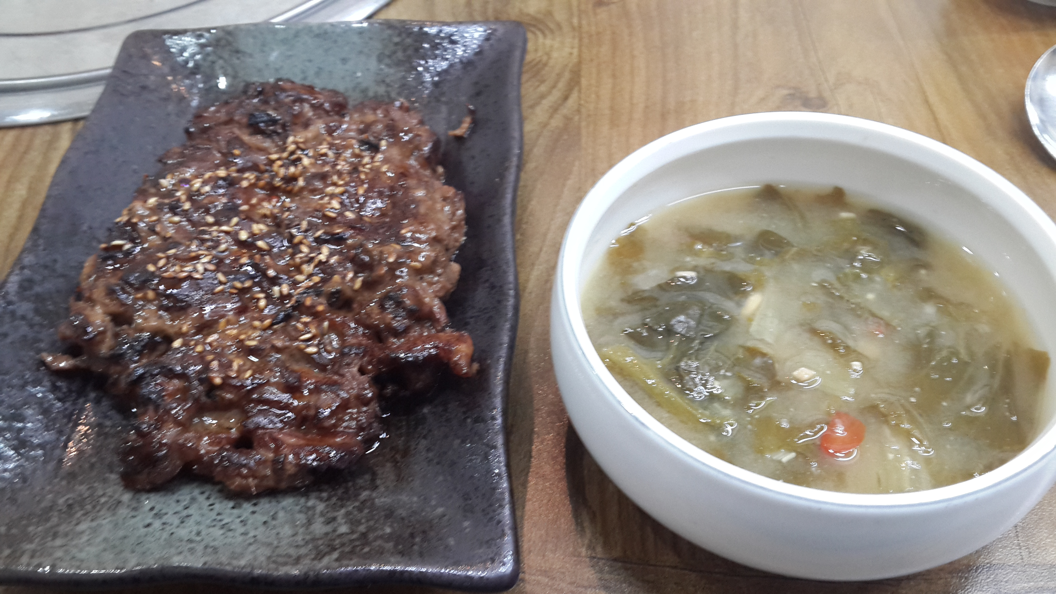 Ddeokgalbi, a type of grilled dish in Korea. (Mokpo, South Korea)